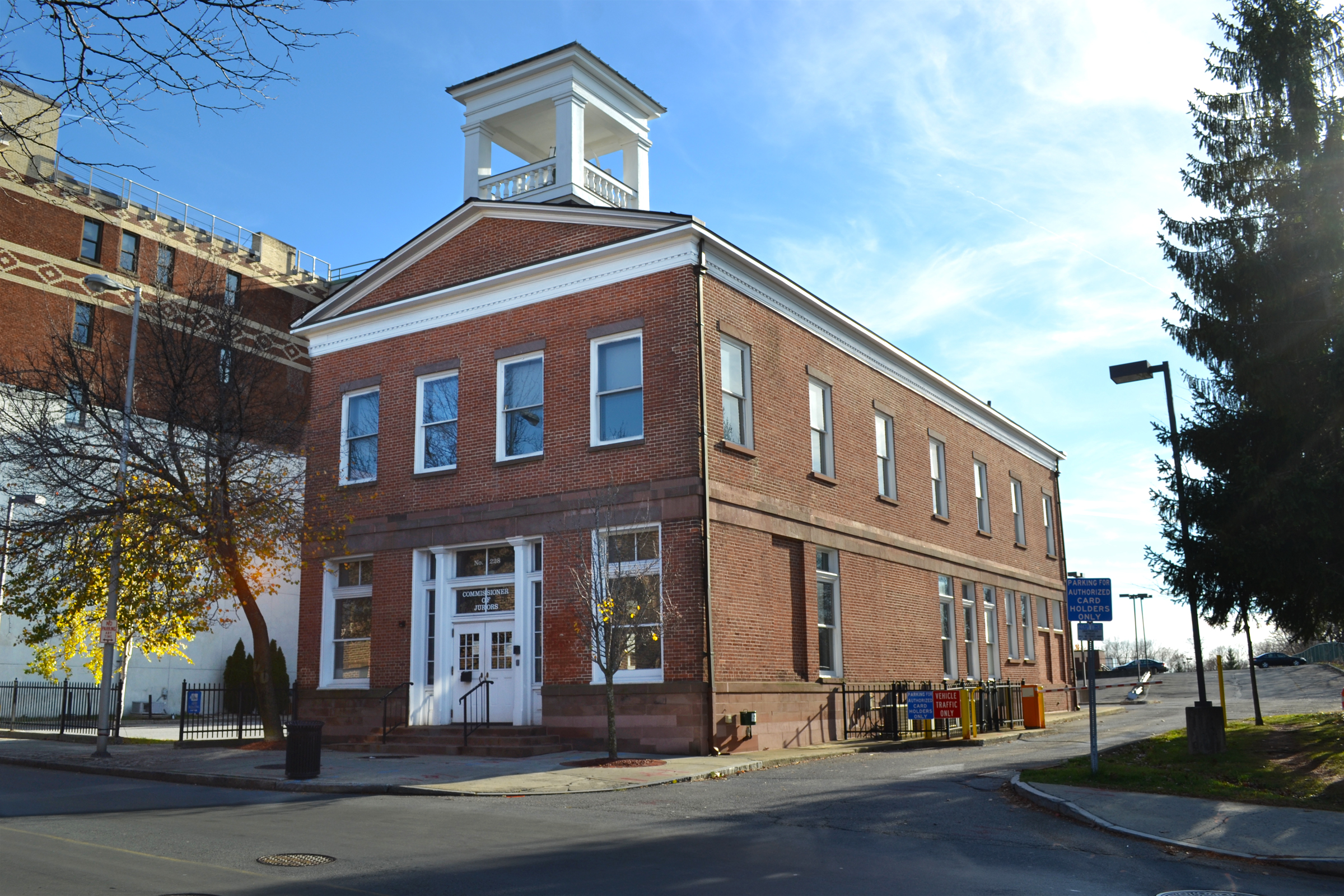 Poughkeepsie City Hall 228 Main St, Poughkeepsie, NY 12601. Northern (front) and Western elevations.